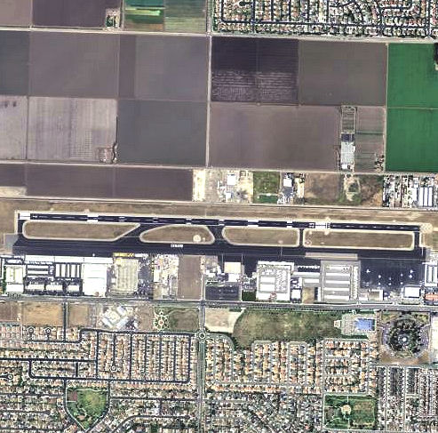 USGS digital orthophoto of Oxnard Airport in California